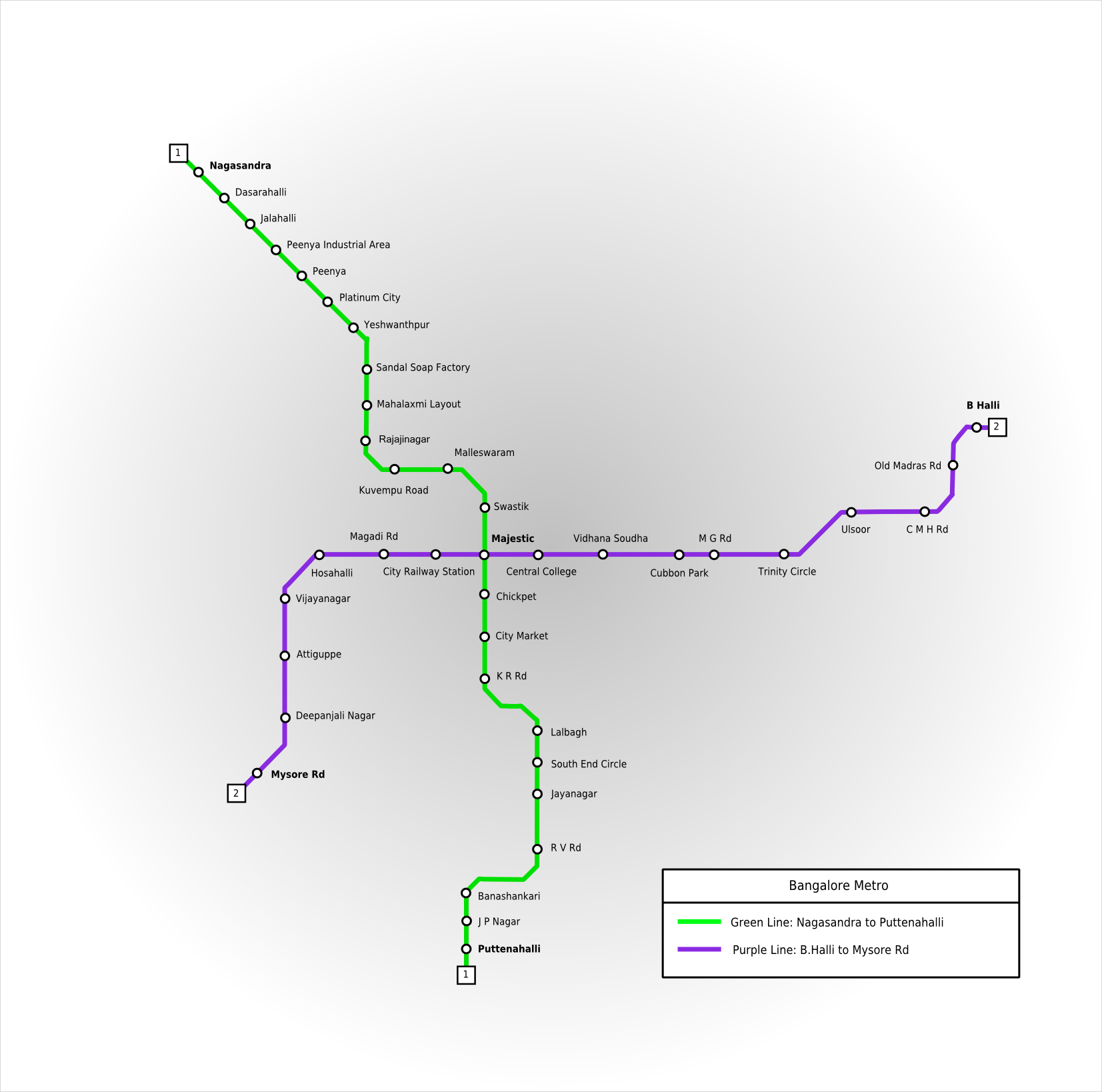 Map of Bangalore Metro